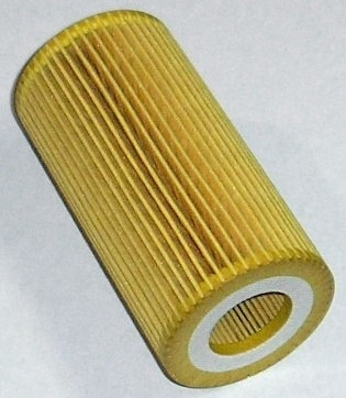 Cartridge-type oil filter for use on a 2006 Volvo S40